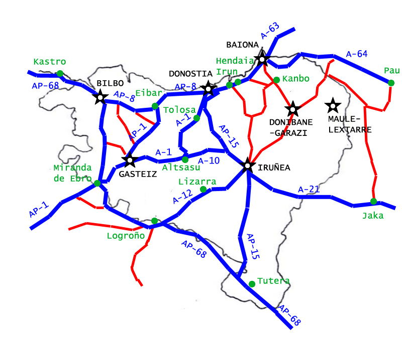 Main roads in the Basque Country